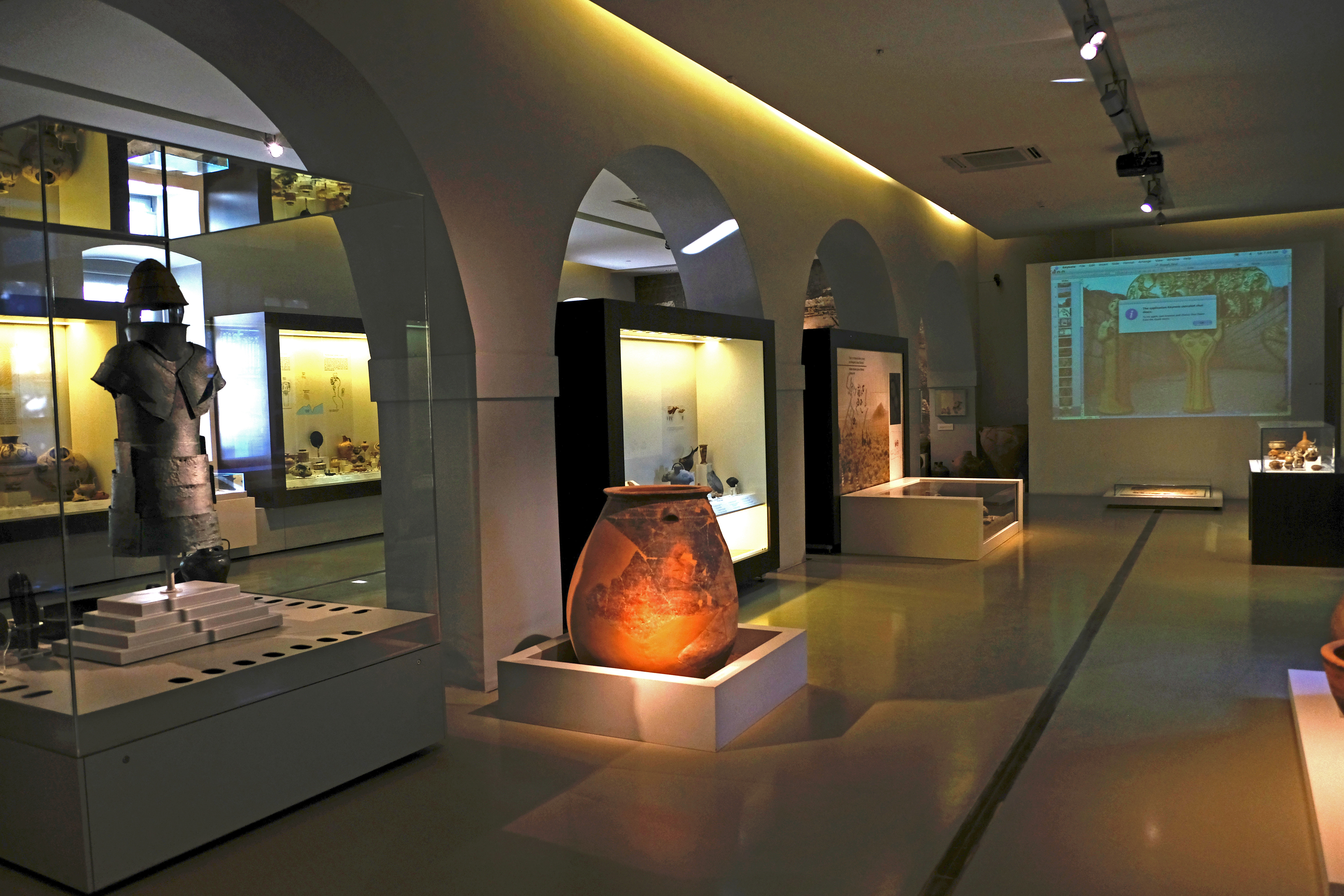 Rooms of Archaeological Museum of Nafplio